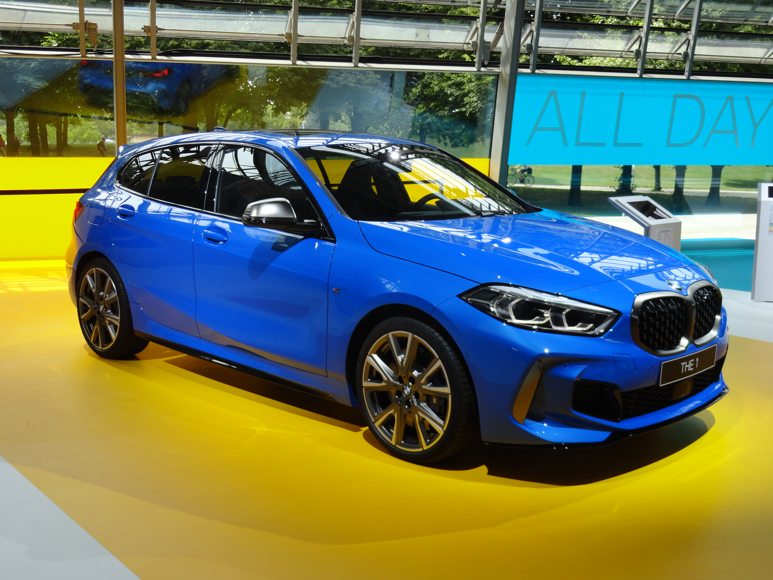 BMW M135i xDrive (F40) at BMW Welt - front view